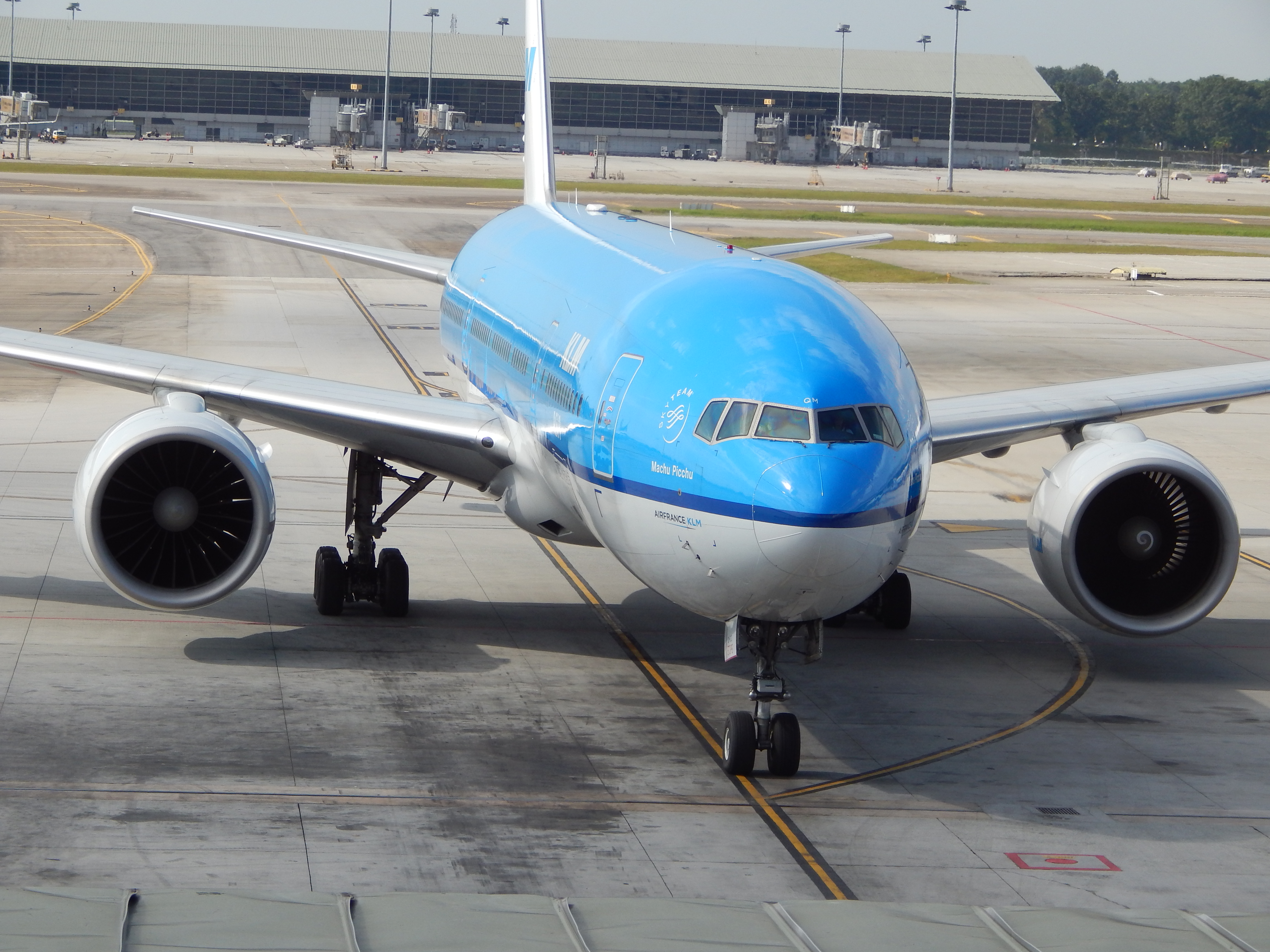 Taxi-ing to stand after its long flight from AMS is 'Machu Picu'. It gets a refresh before heading off to Jakarta. Taken in November 2014.